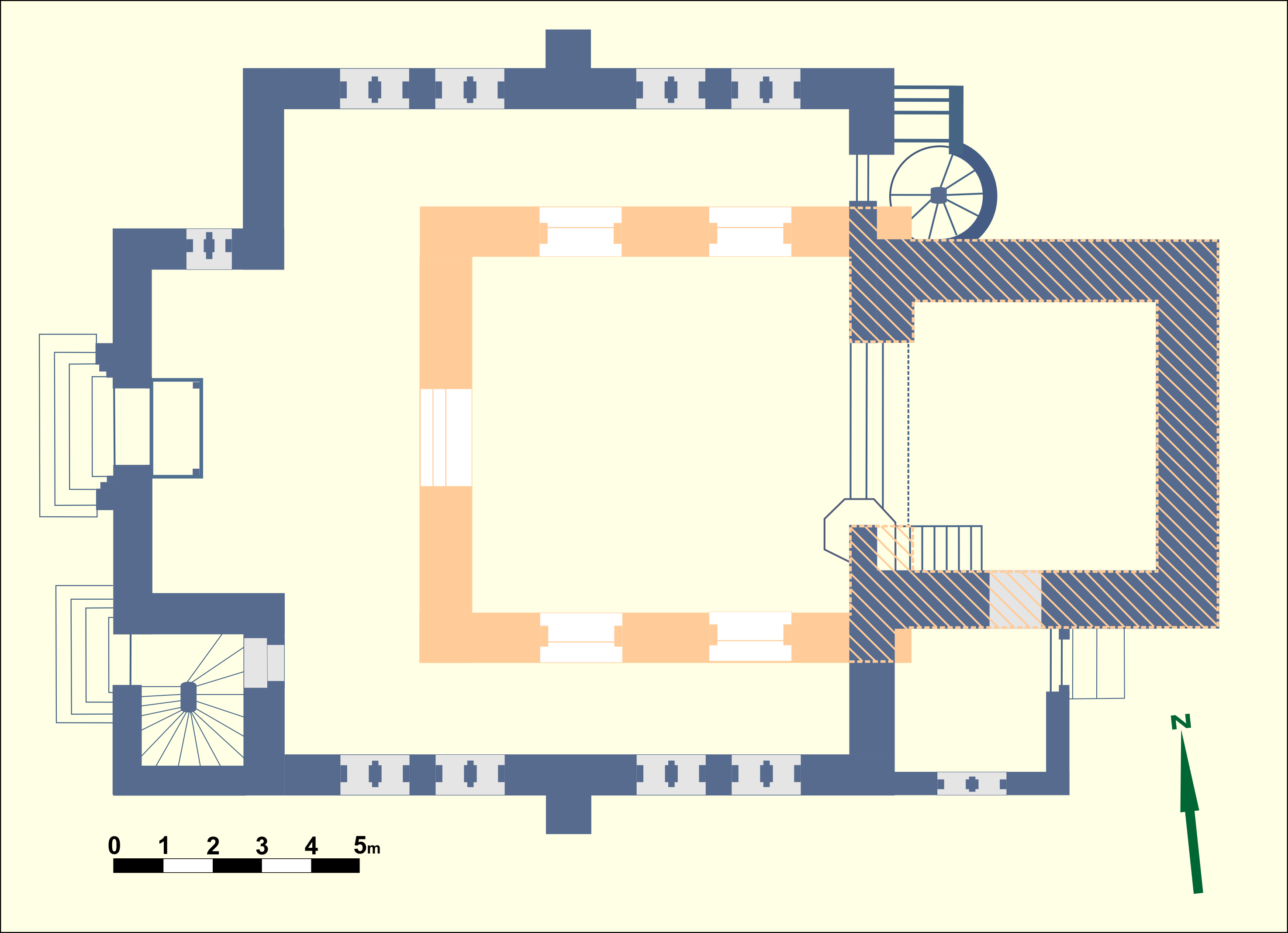 Protestantic church Wellerode - Map